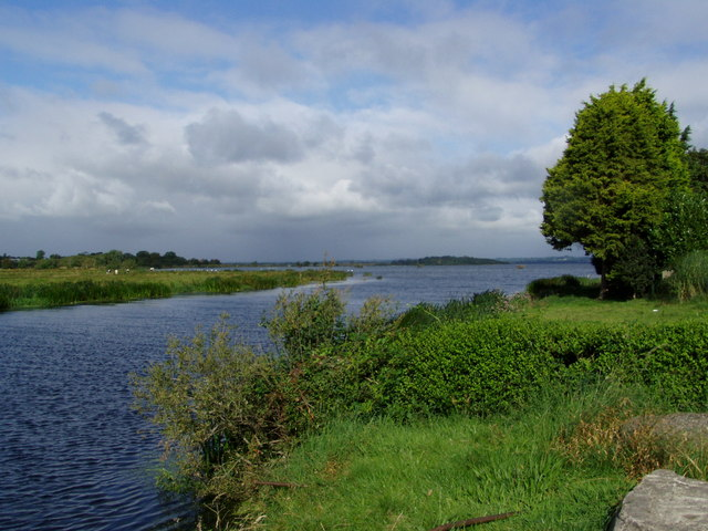 The River Bann The Upper Bann entering Lough Neagh